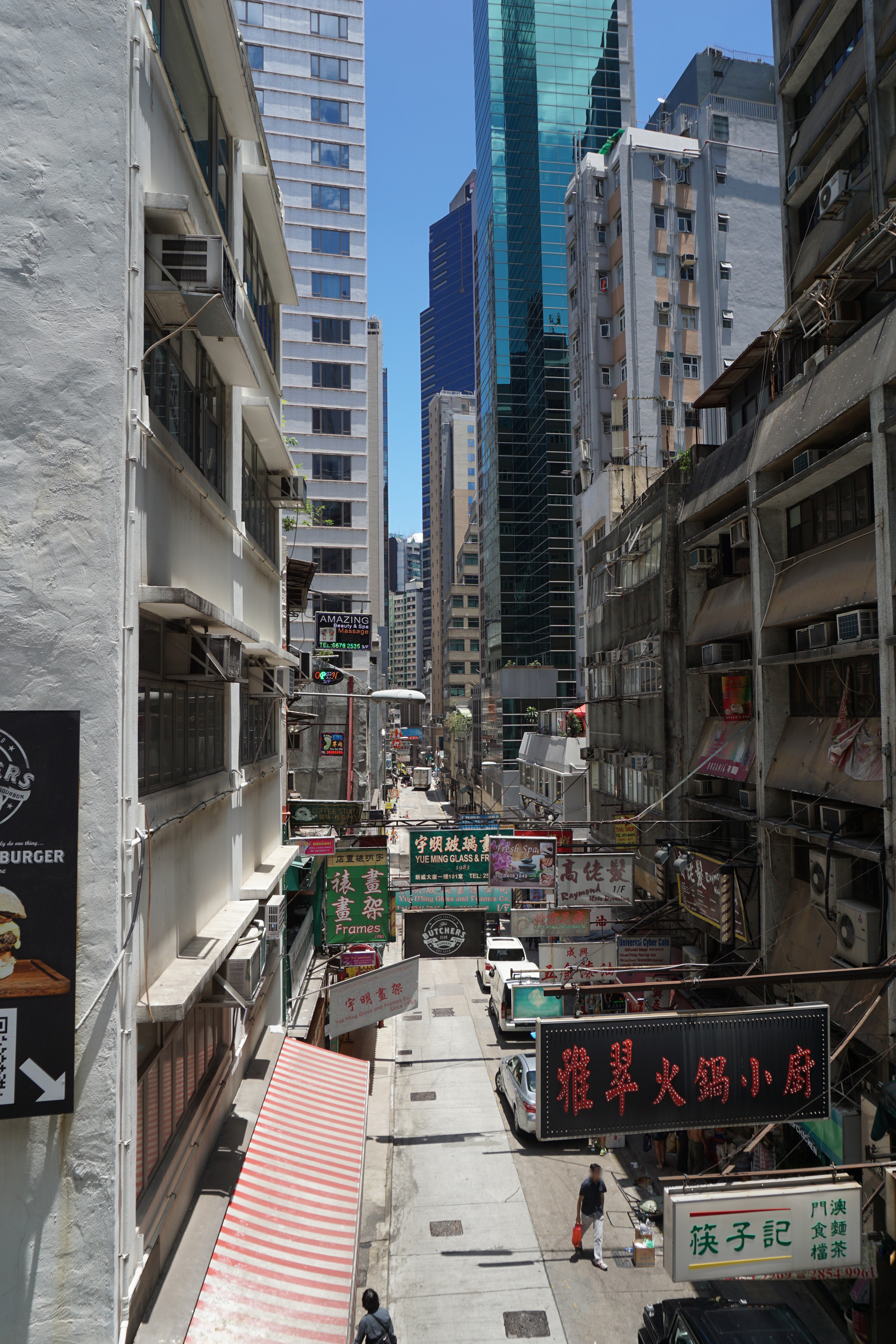 Wellington Street in Central, Hong Kong.